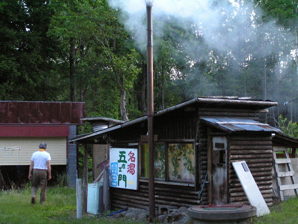 rider's house chirorin-mura ち炉りん村